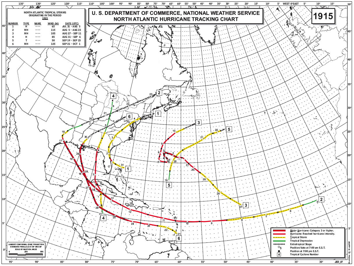 Reanalyzed 1915 season